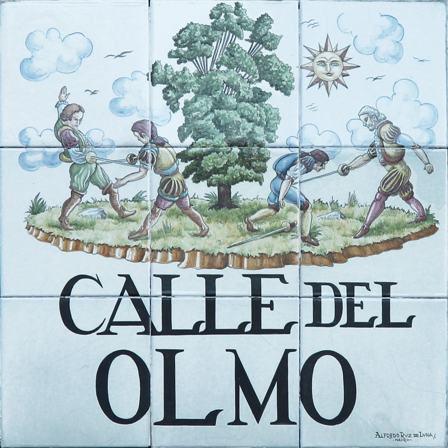 Sign of Calle del Olmo (street) in Madrid (Spain).